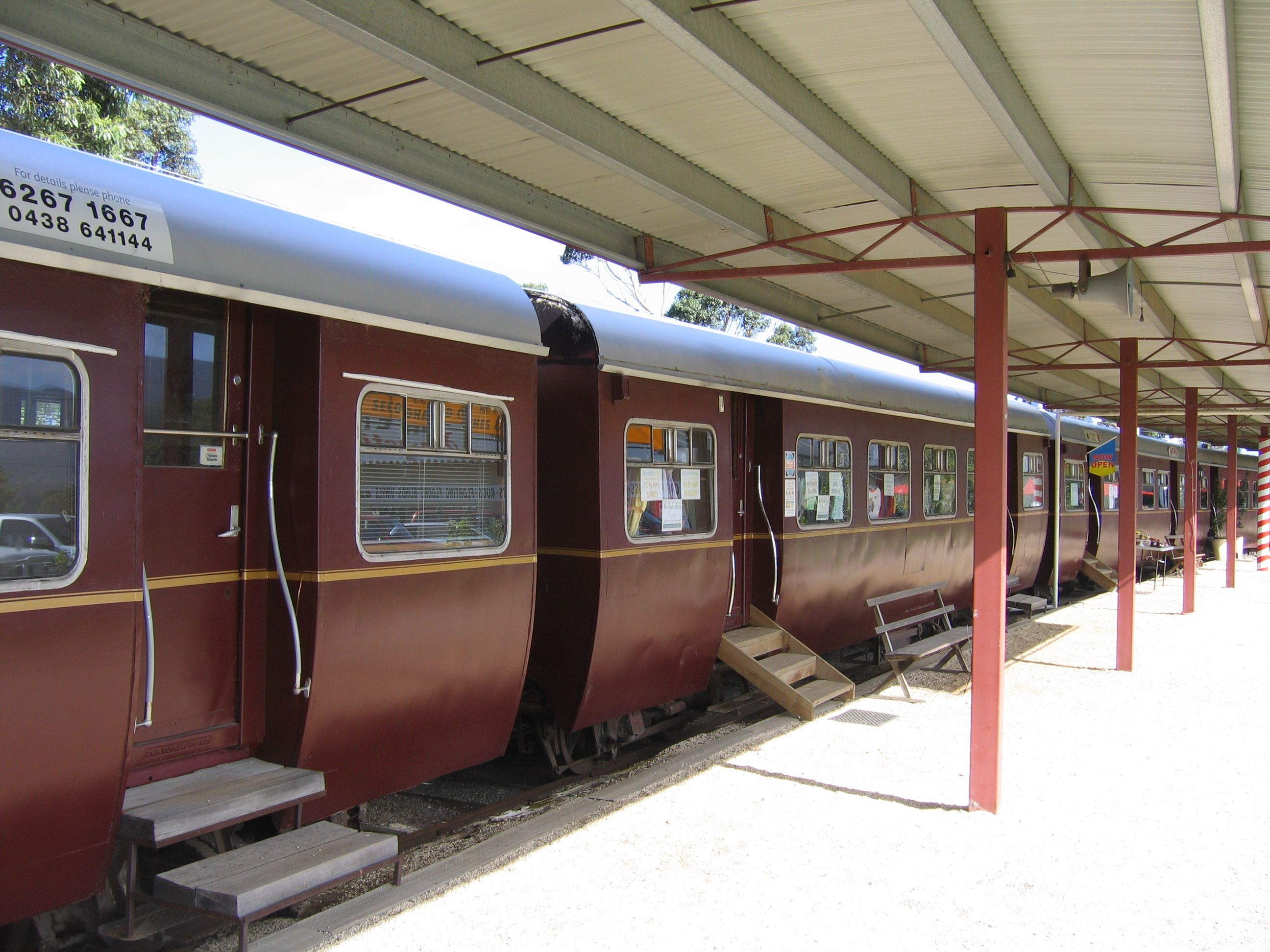 Margate Market Train / Tasman Limited